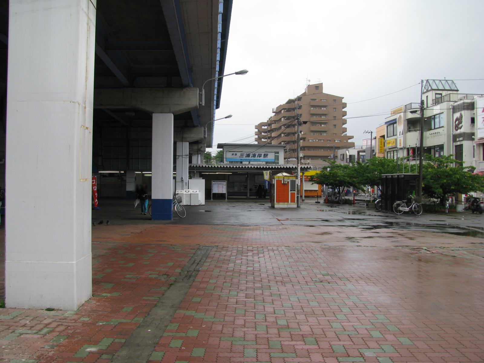 Miurakaigan Station on the Keikyu Kurihama Line in Kanagawa Prefecture, Japan